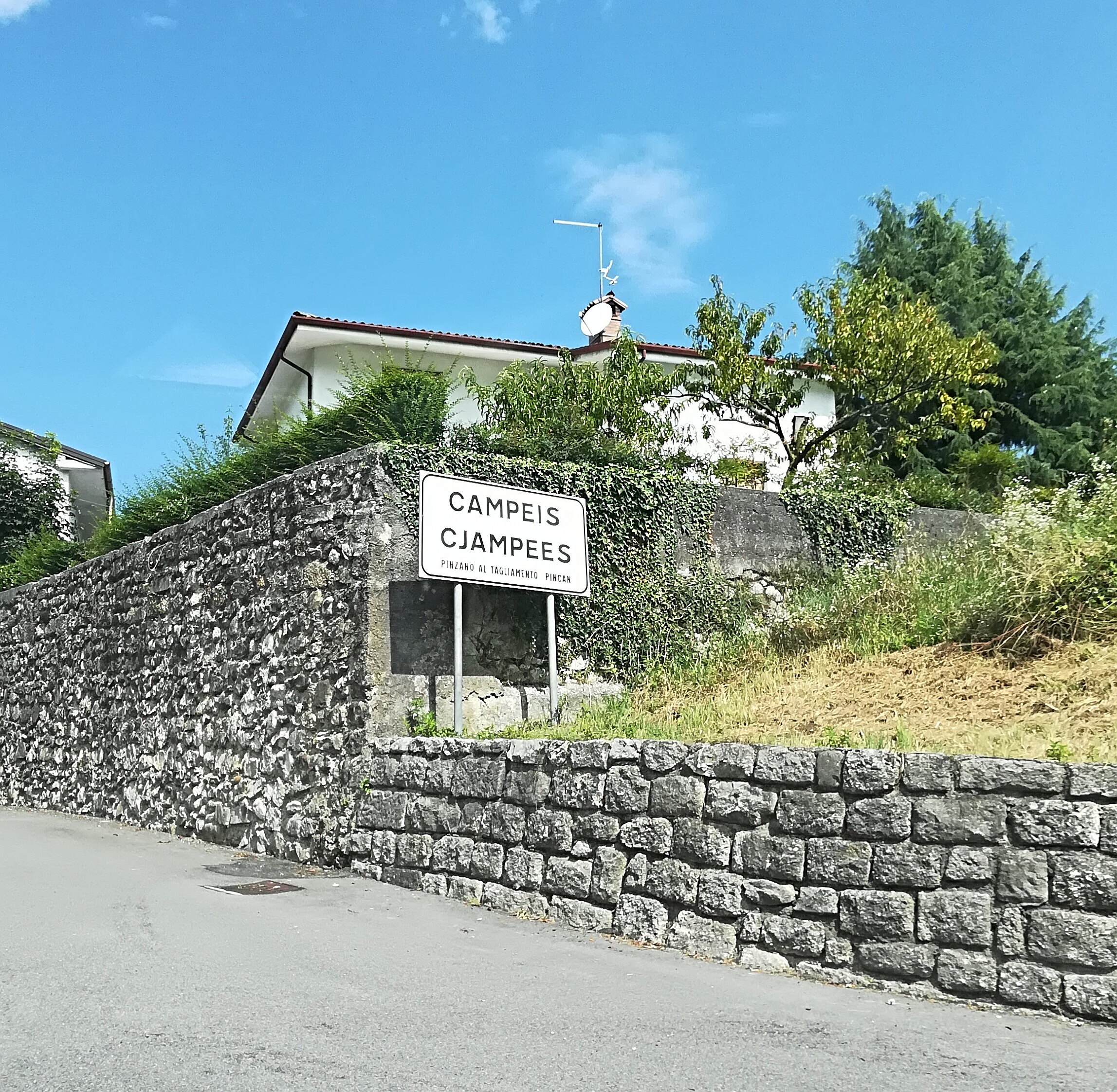 Campeis